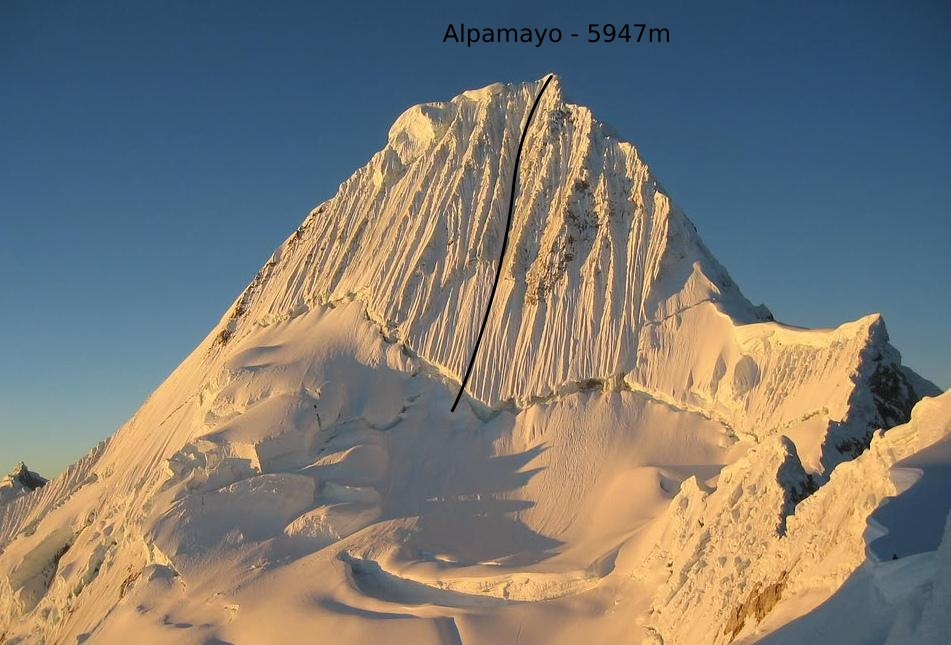 Alpamayo - directe française